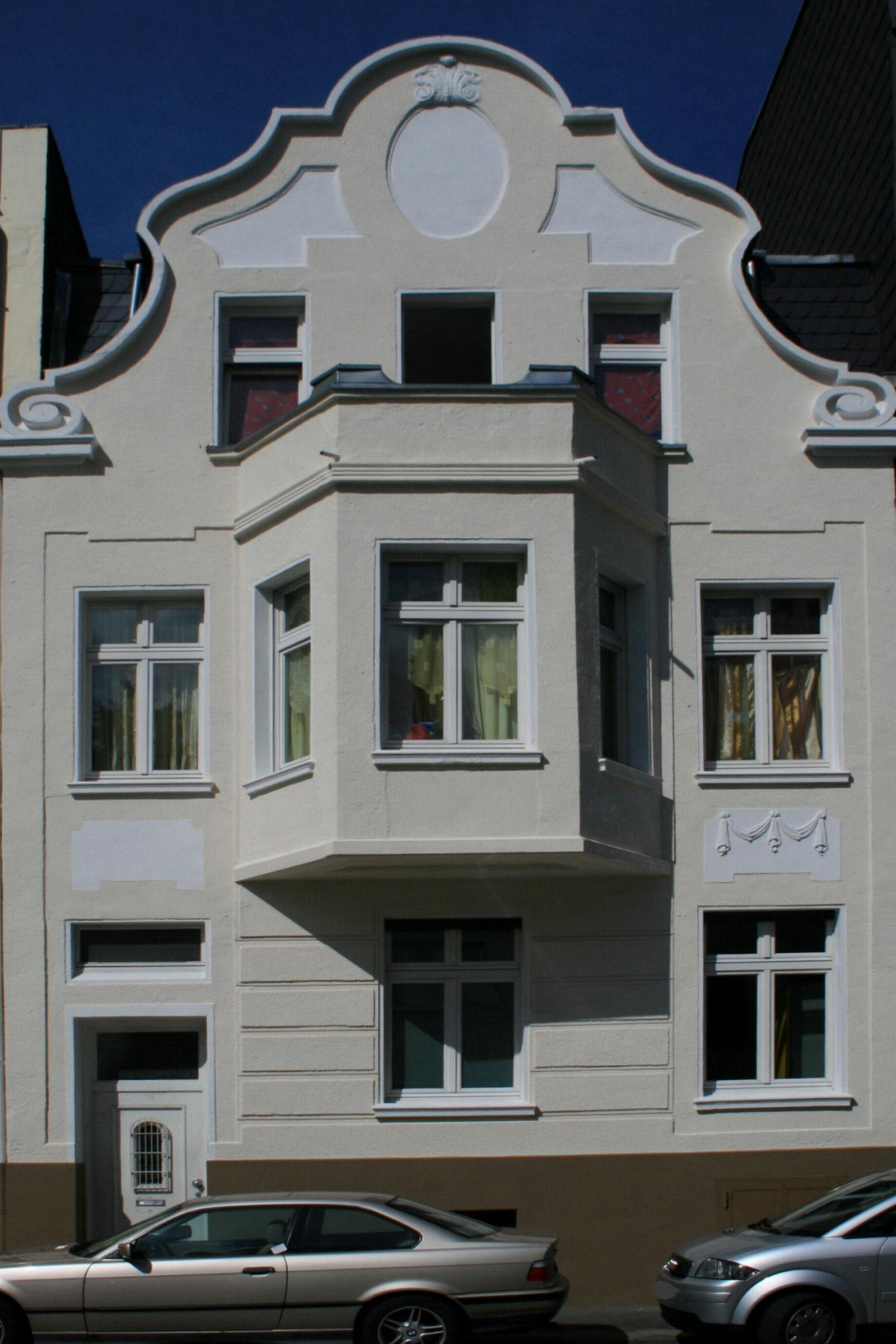 Cultural heritage monument No. A 004 in Mönchengladbach